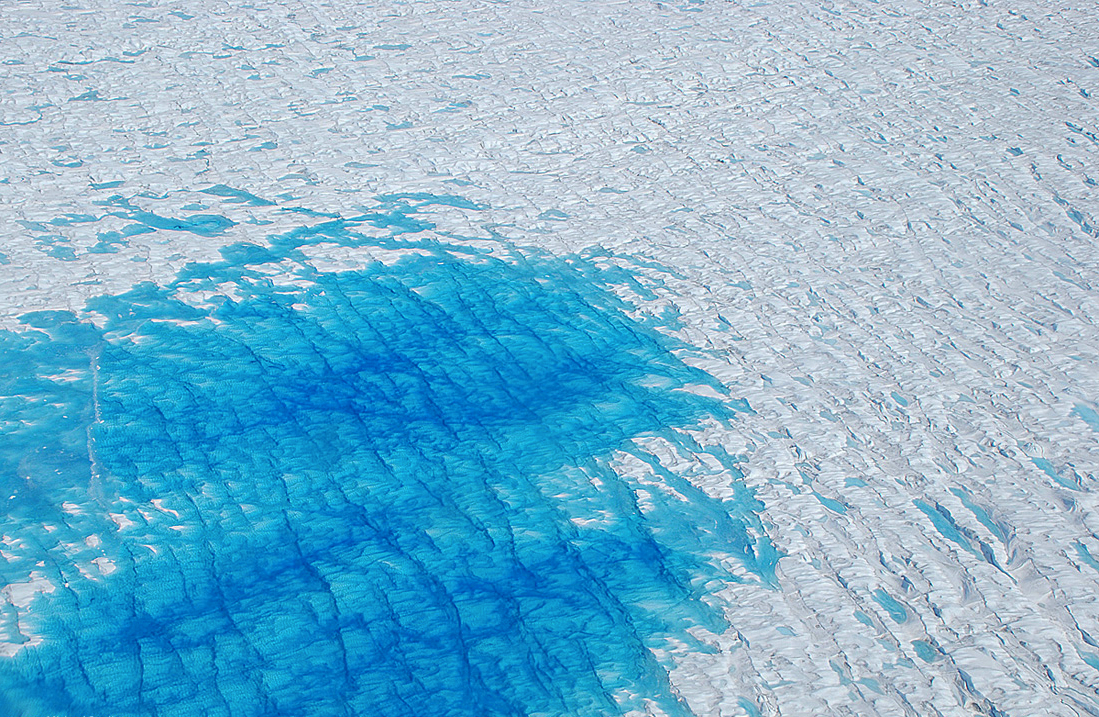 While surface melting at high altitudes will result in the conversion of snow to slush that will then refreeze into denser snow or a thin ice layer, widespread melting at low altitudes can create small ponds of melt water, particularly at the perimeter of the ice sheet. Around the border of the pond, smaller collections of melt water are seen between ridges of ice. CREDIT: Michael Studinger, NASA GSFC, 2008.